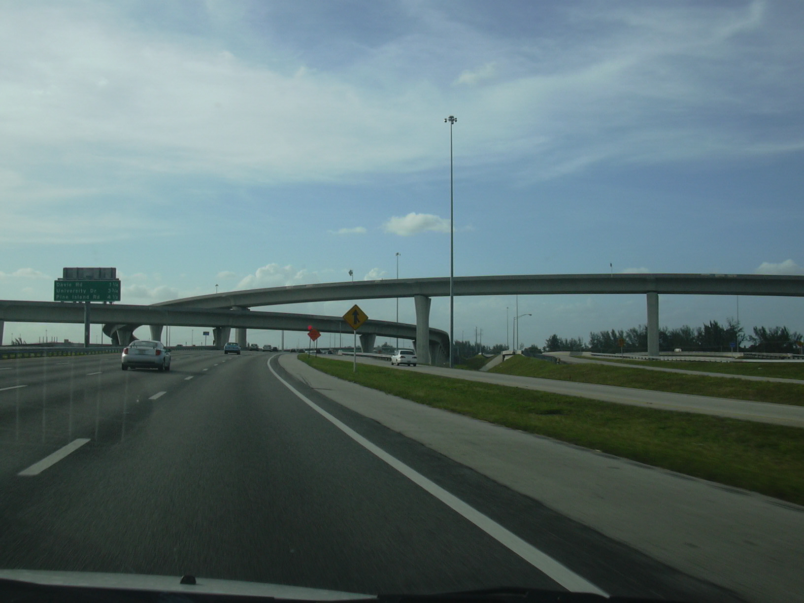 Overpasses. Location: Florida, Ft Lauderdale